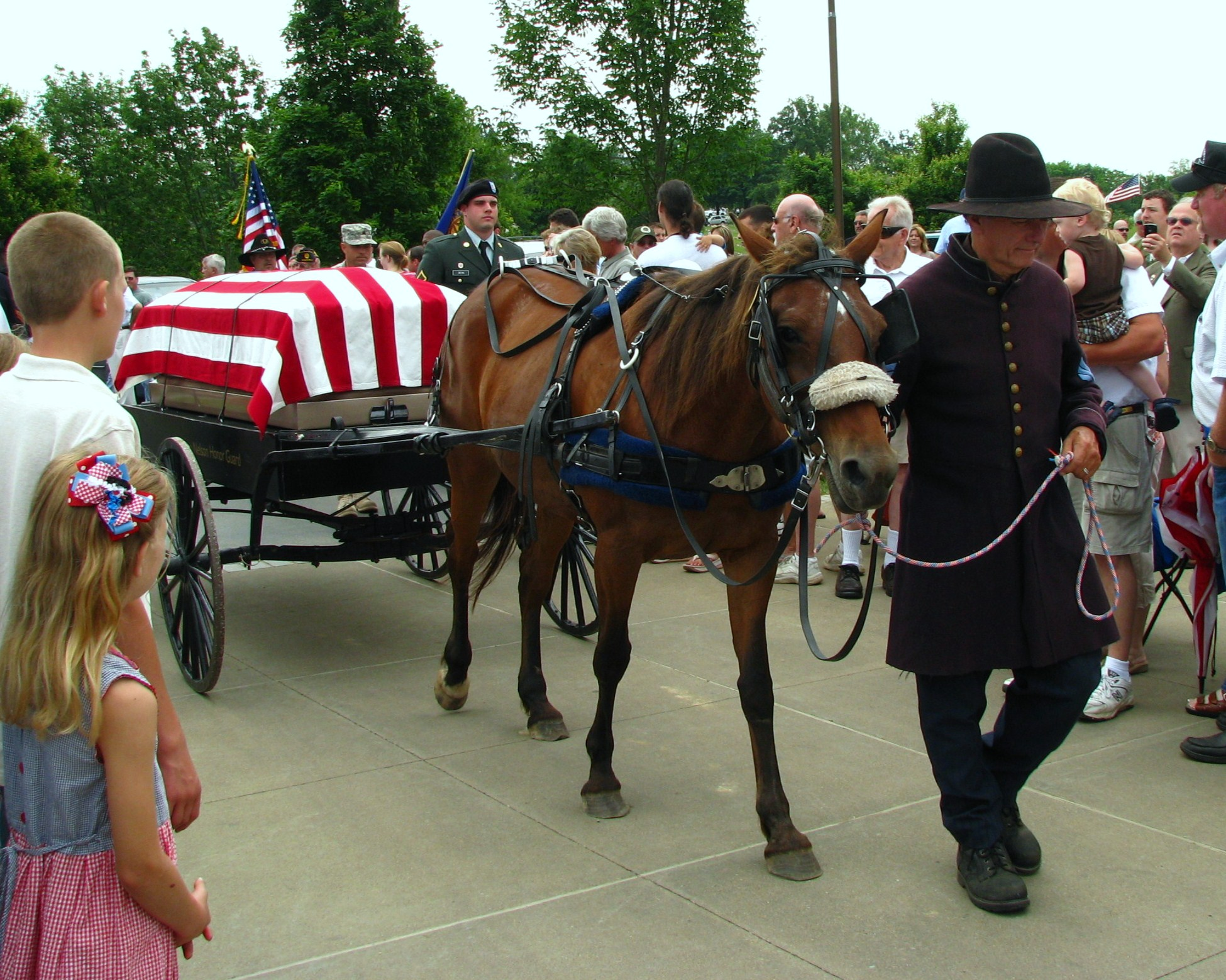 Horse-drawn caisson & limber with flag-draped coffin at Camp Nelson National Cemetery, Memorial Day 2010.